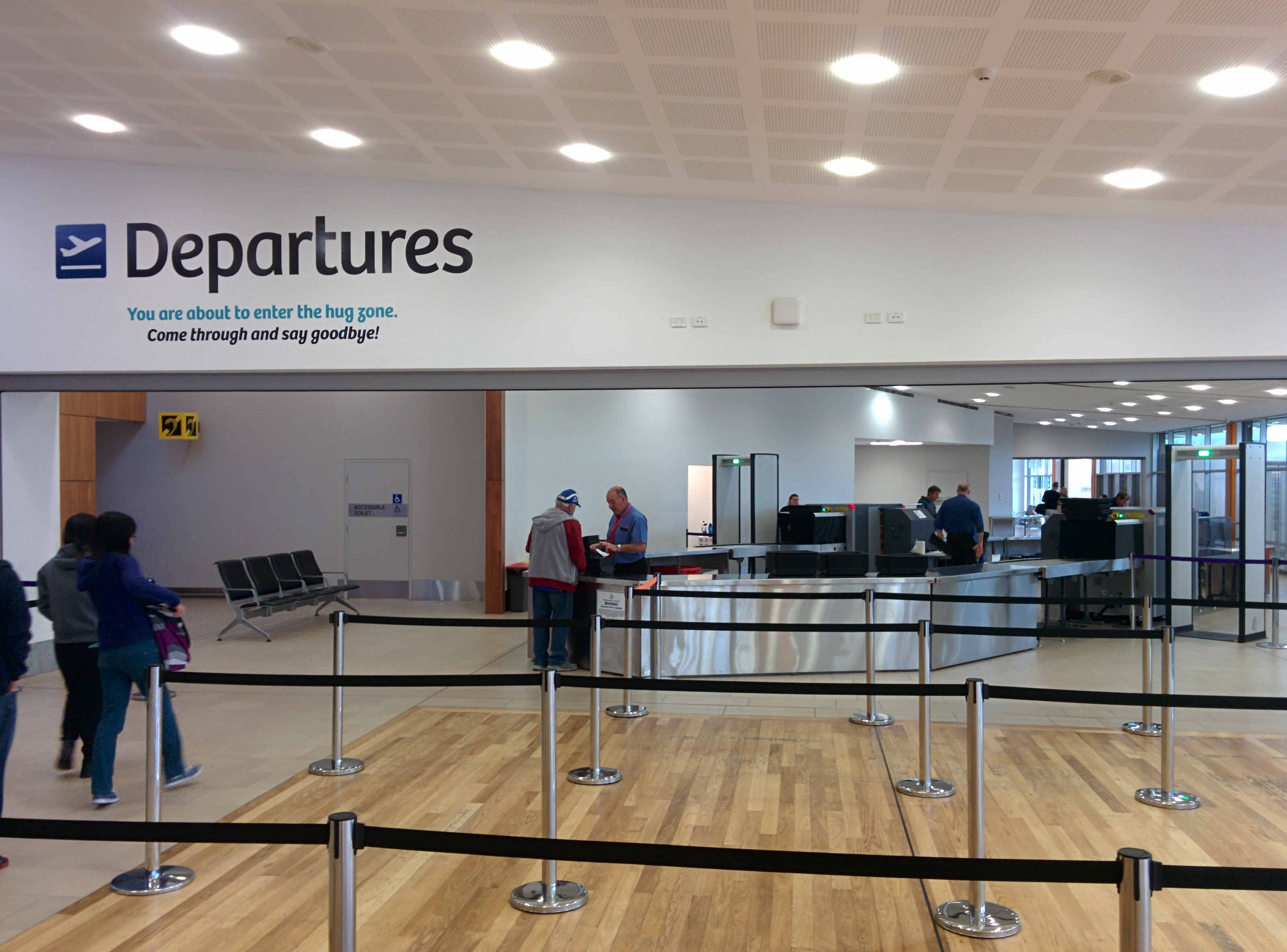 The security checkpoint for departures leaving Hobart International Airport.